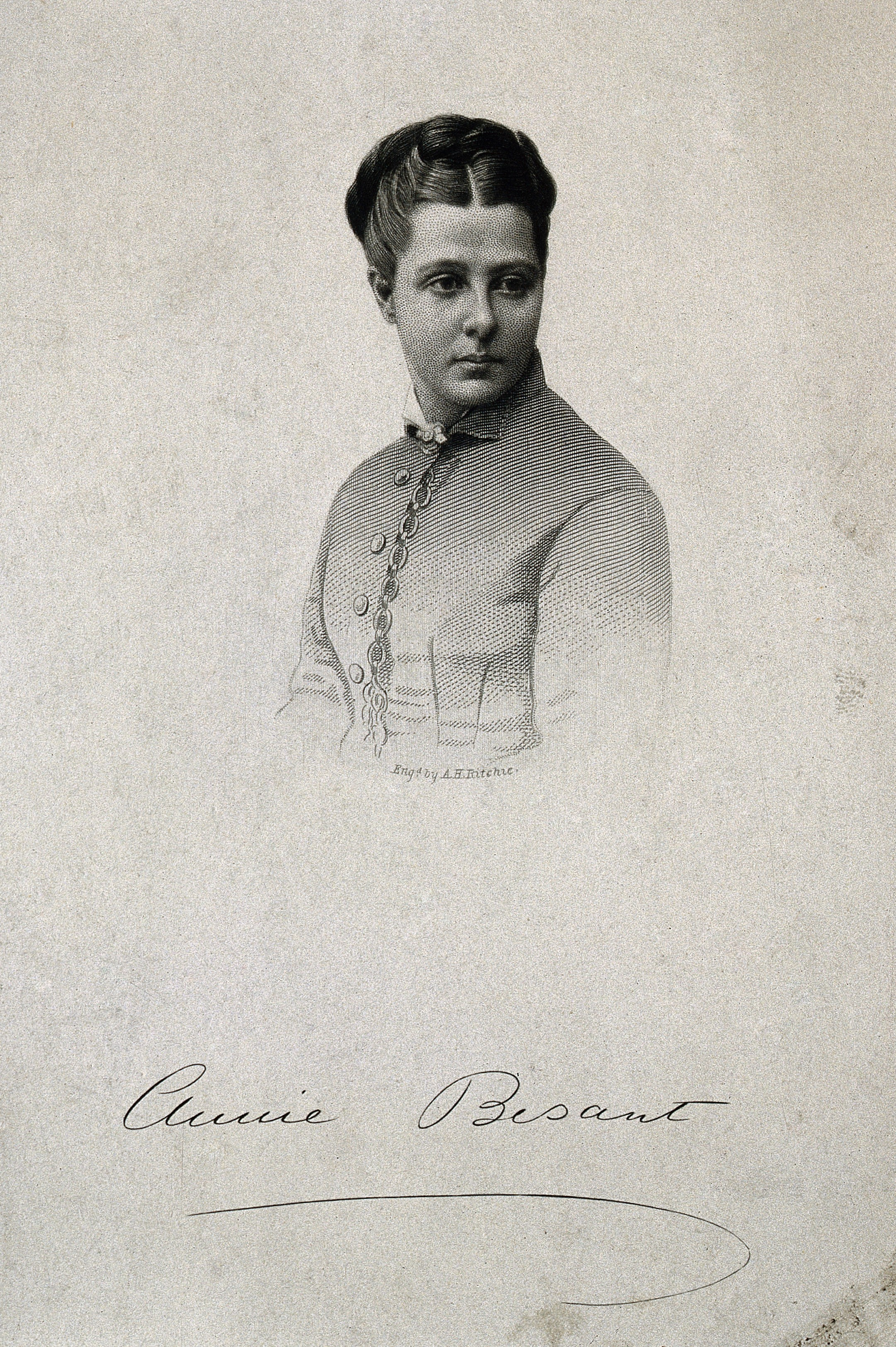 Annie Besant. Stipple engraving by A. H. Ritchie. Iconographic Collections Keywords: portrait prints; Annie Wood Besant; stipple prints; besant, annie, 1847-1933; A. H Ritchie